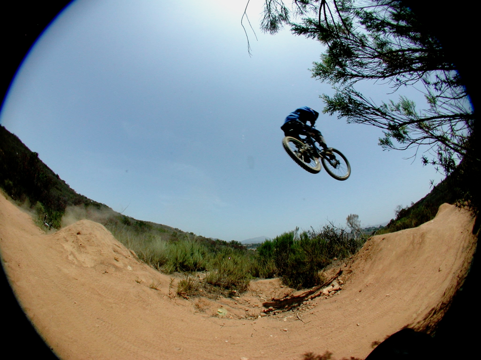 A freeride/dh mountain bike jump in san diego.